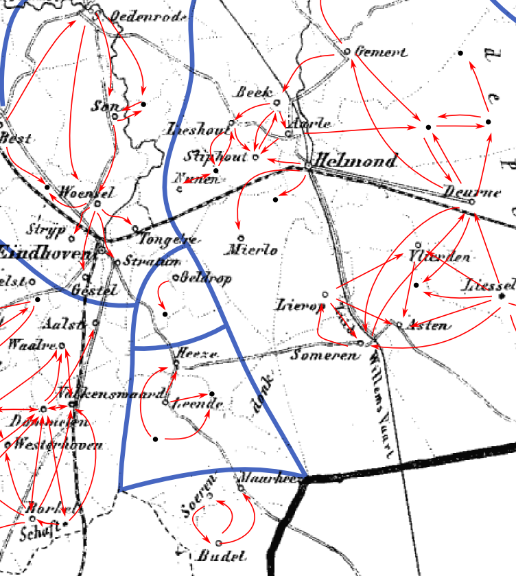 Example of the "Arrow method" of Dutch linguist Toon Weijnen in the dialects of East NoordBrabant, The Netherlands